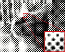 Sample image illustrating a halftone process.